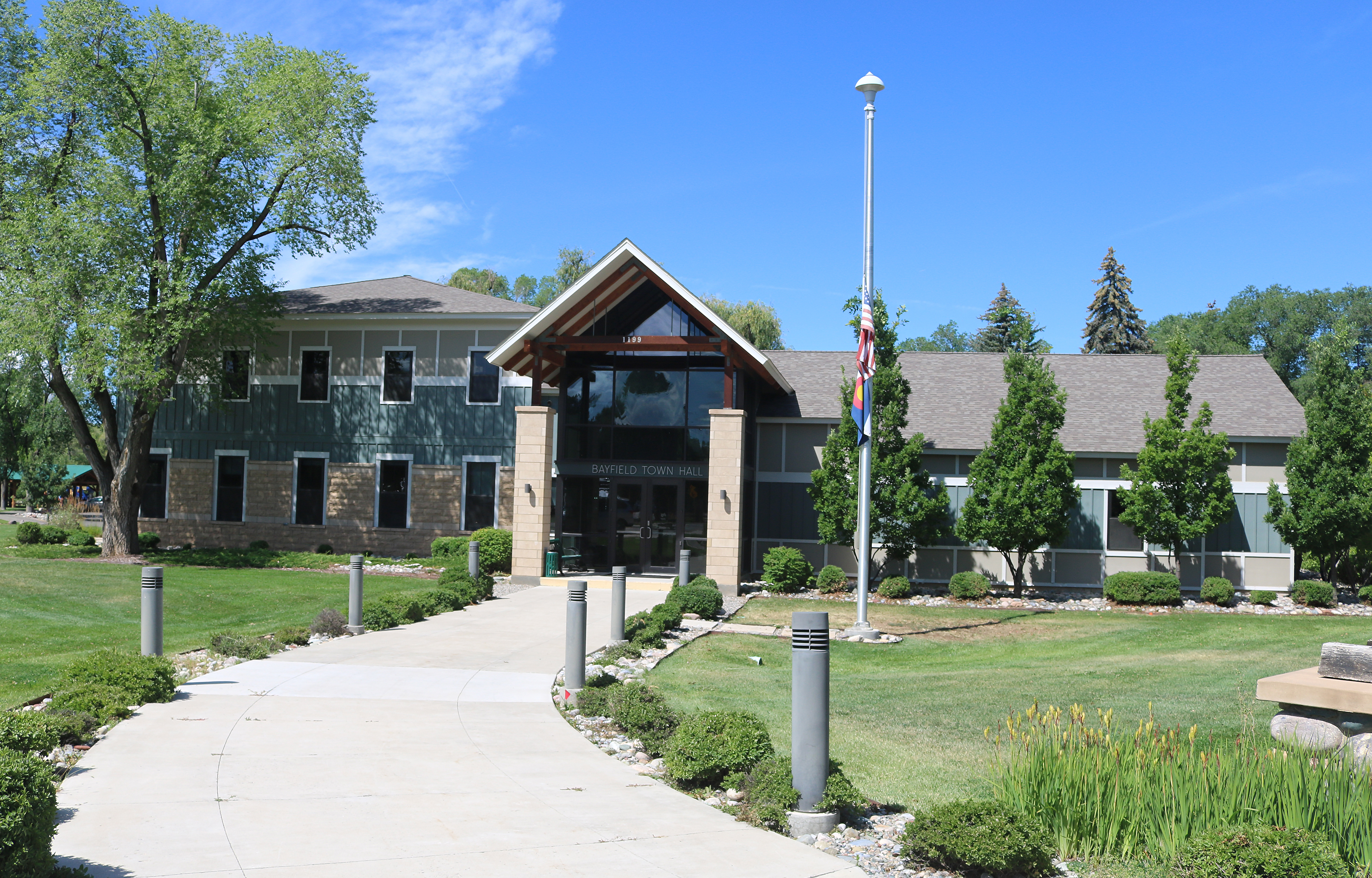 The town hall of Bayfield, Colorado, located at 1199 Bayfield Parkway in Bayfield, Colorado.